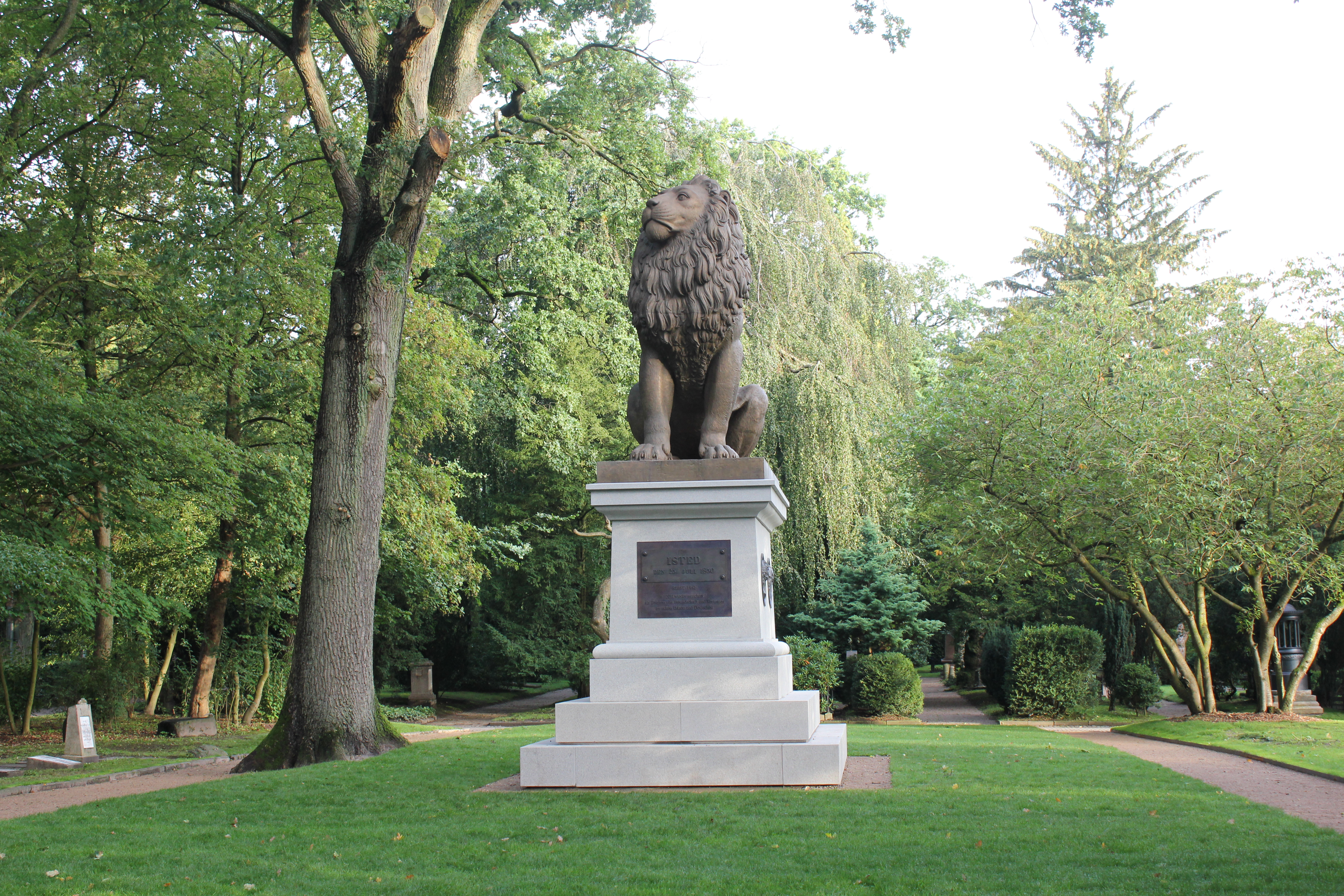 Flensburg Lion in the Daylight